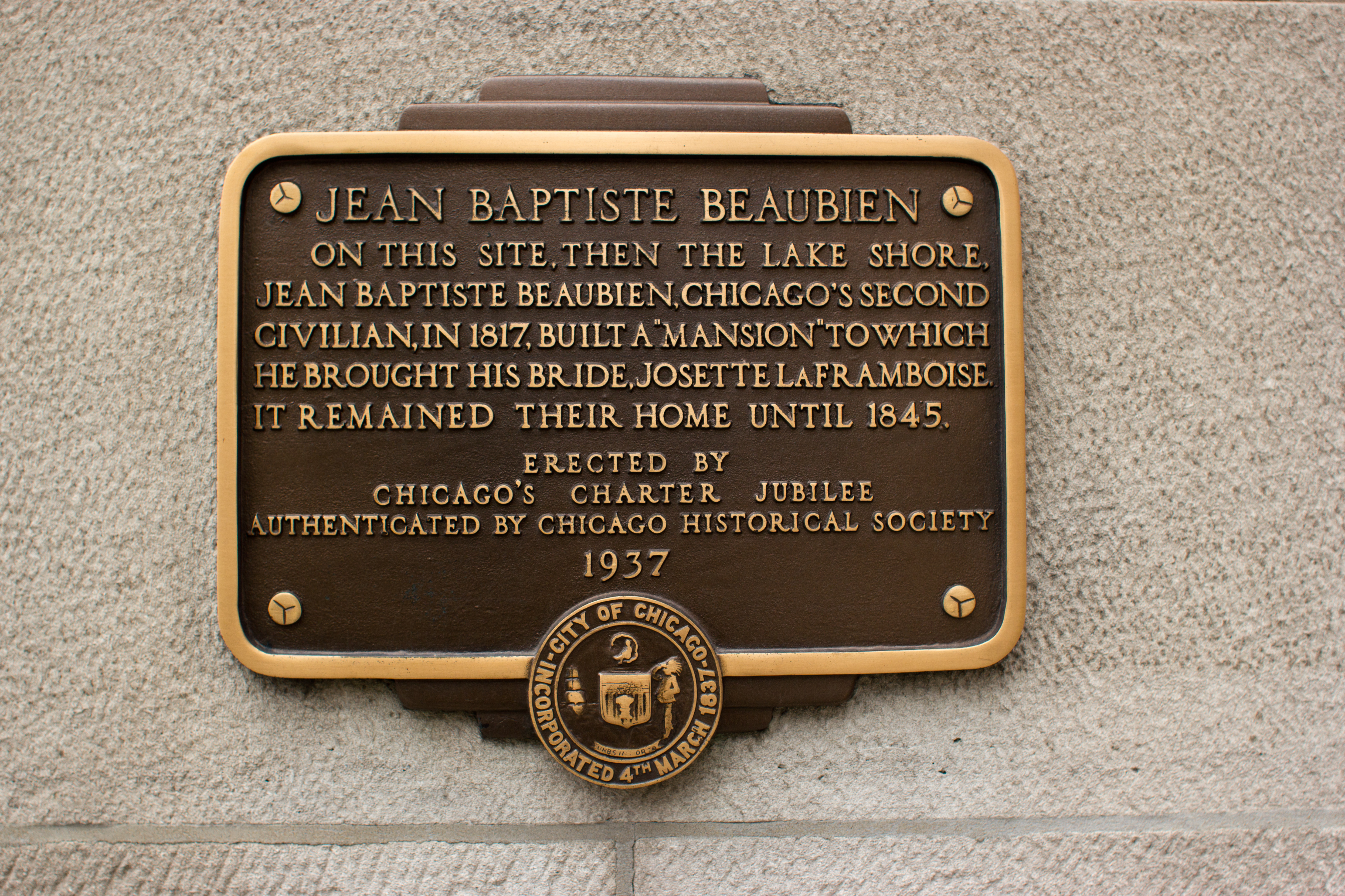 Jean Baptiste Point Du Sable Homesite